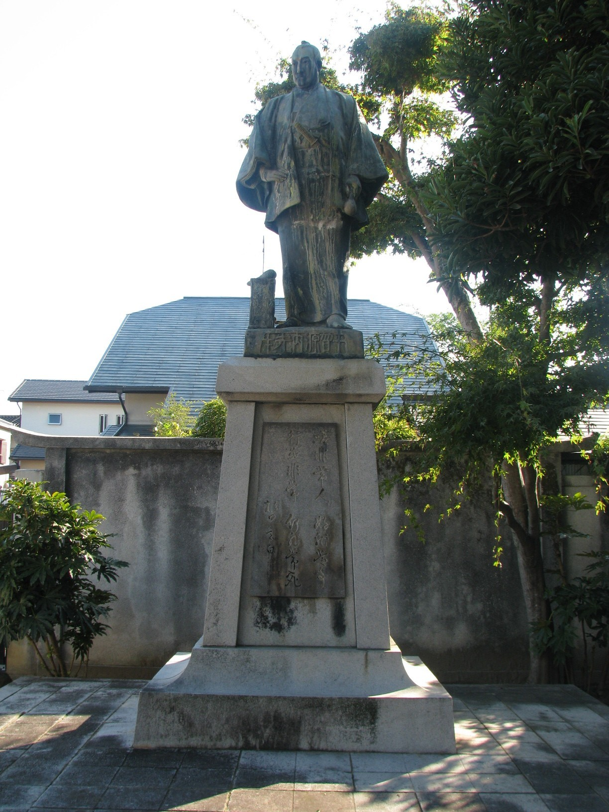 Hiraga Gennai at Shido (Japan) 1934年10月建立。作者は小倉右一郎（1881-1962）[1]